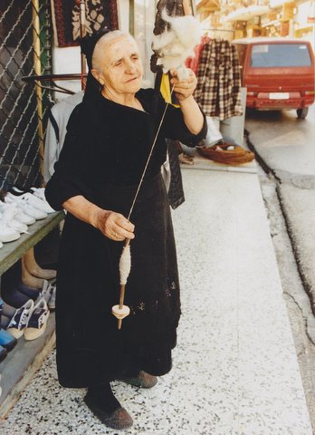 Spinning old woman Greece